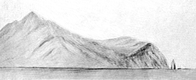 Kalekhta Head and Priest Rock, Unalaska Island, Alaska, US